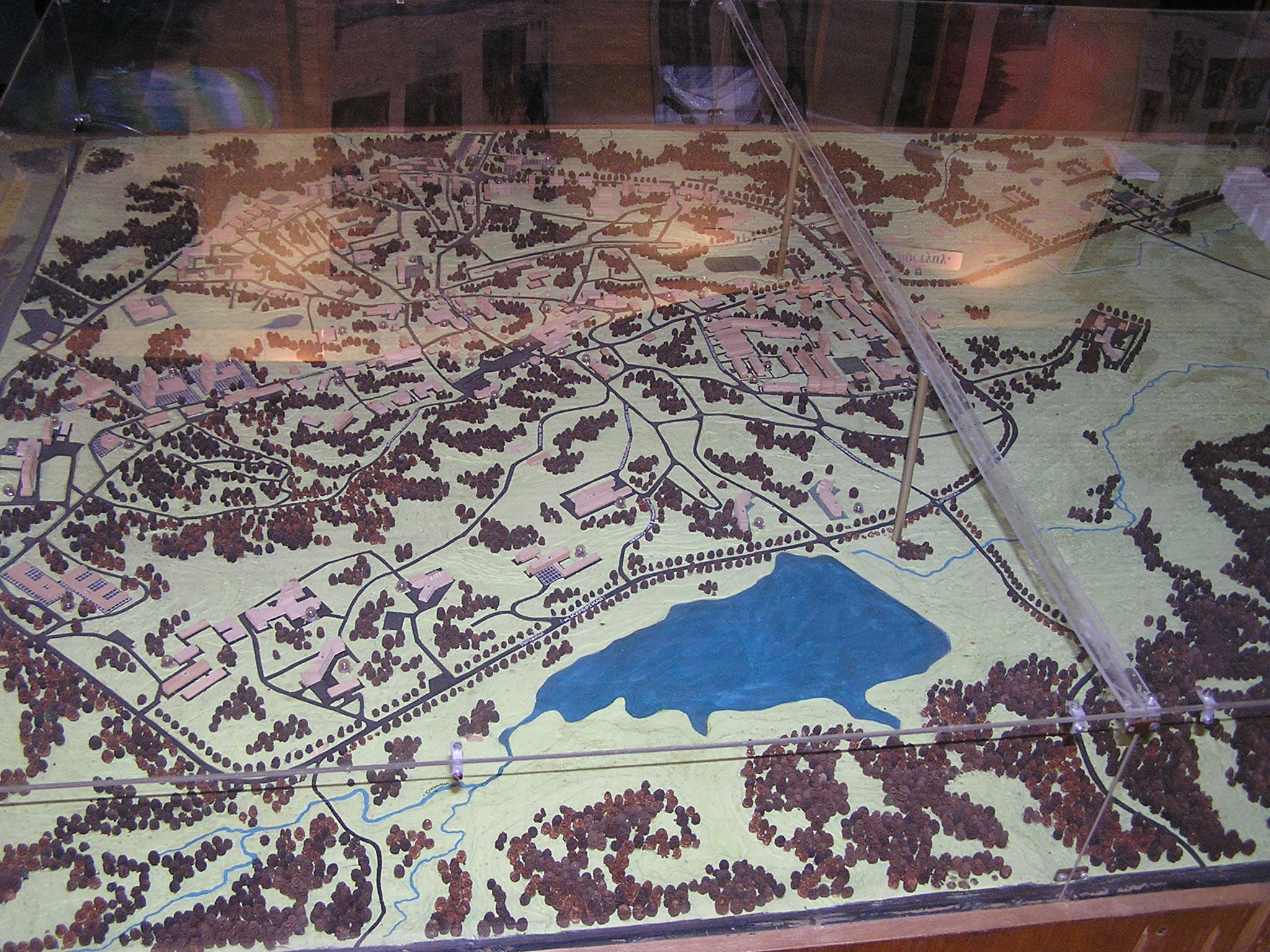 History museum of Truskavets History Museum of Truskavets Native nameМузей истории г. ТрускавецLocationTruskavetsCoordinates49° 16′ 39.5″ N, 23° 30′ 23.96″ E Established29 December 1982 Authority control : Q12130489 institution QS:P195,Q12130489